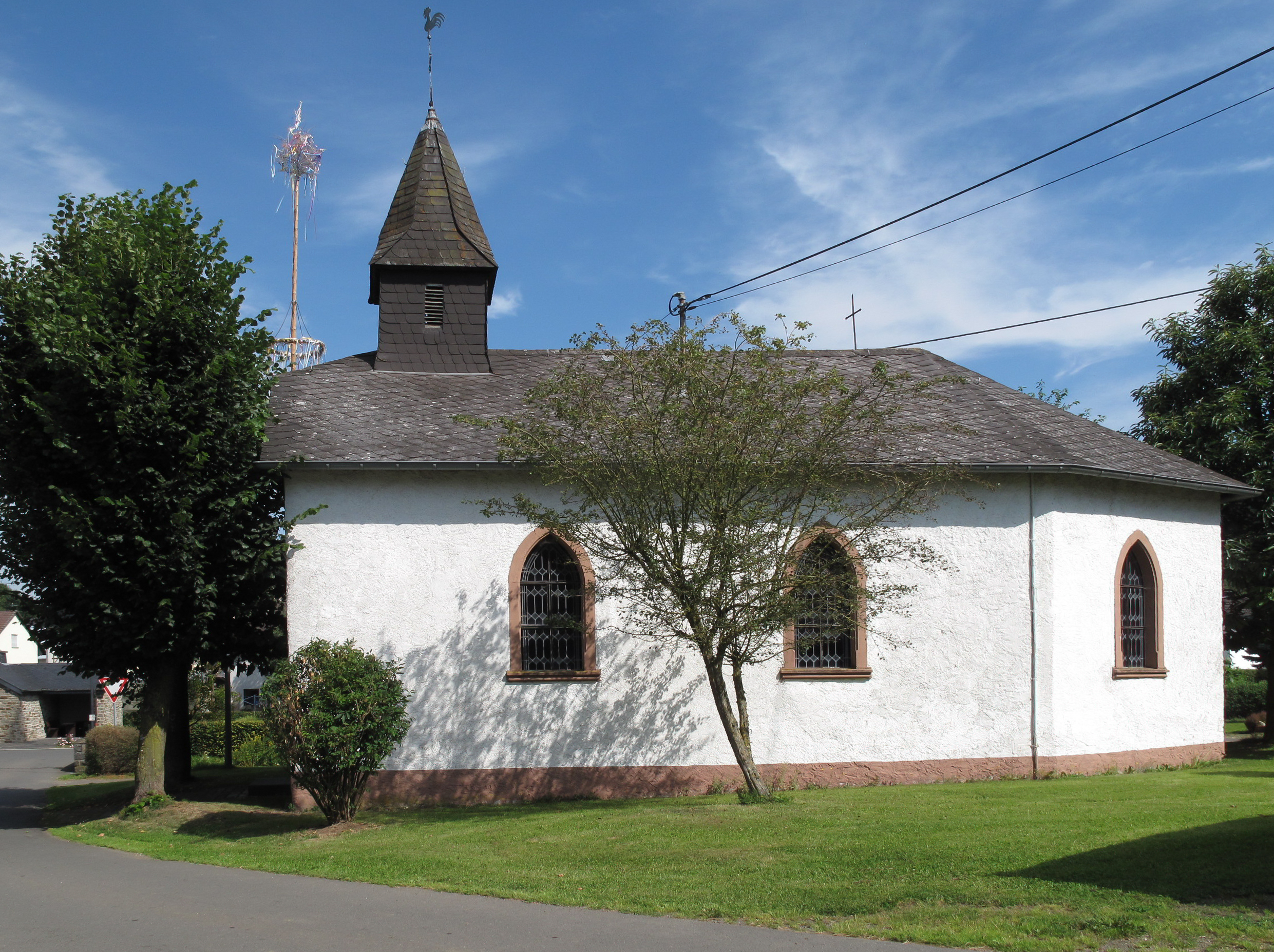 Nerdlen, church